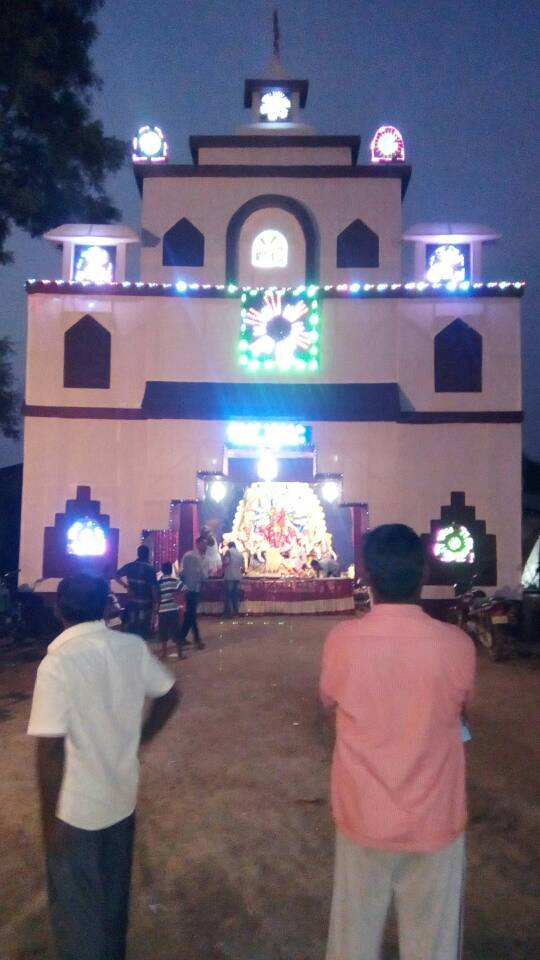 Durga Pooja Mandap Jogimunda